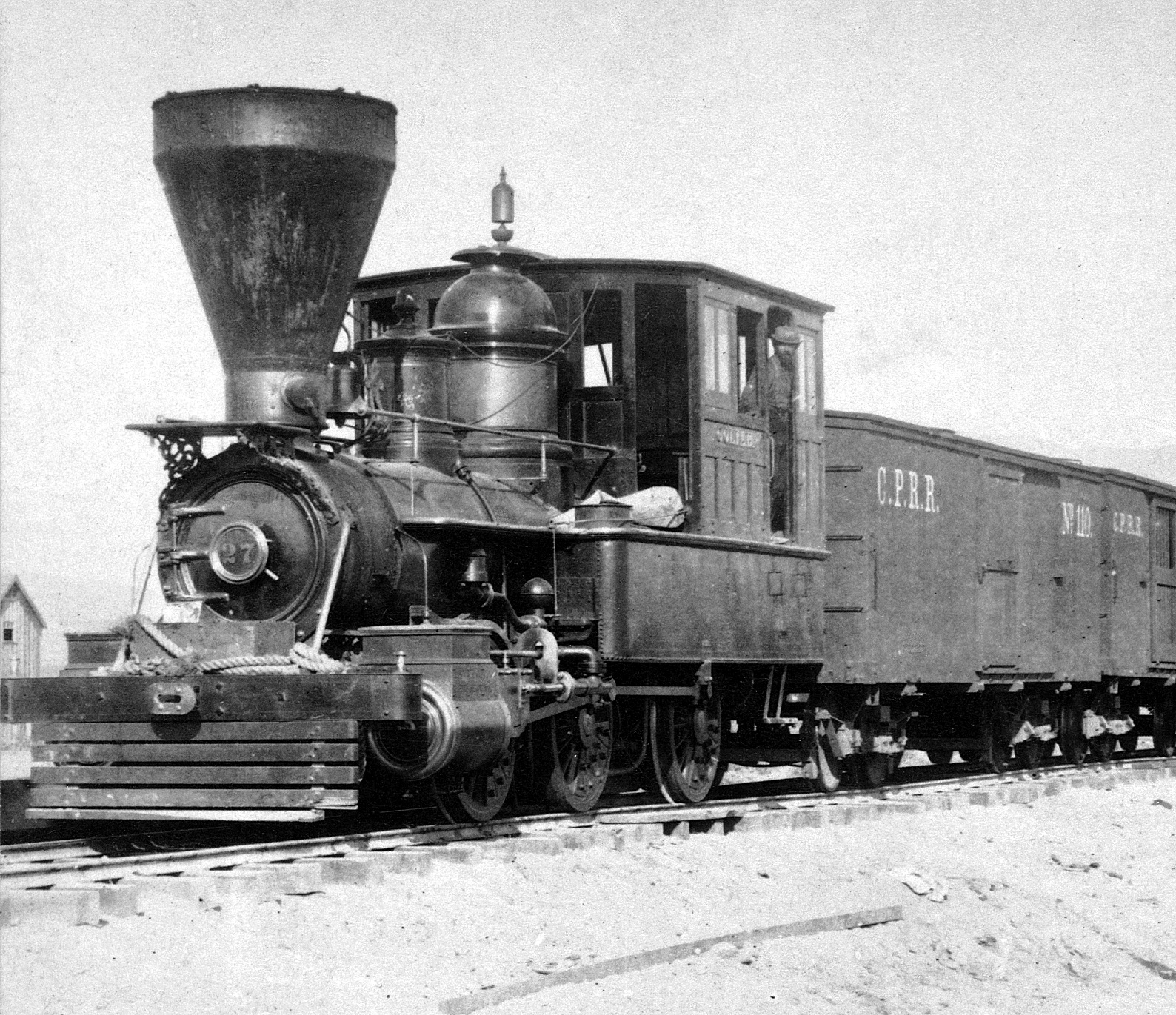 Locomotive Goliah, Central Pacific #27, an 0-6-0 tank locomotive, "at Wadsworth, Big Bend of Truckee River".